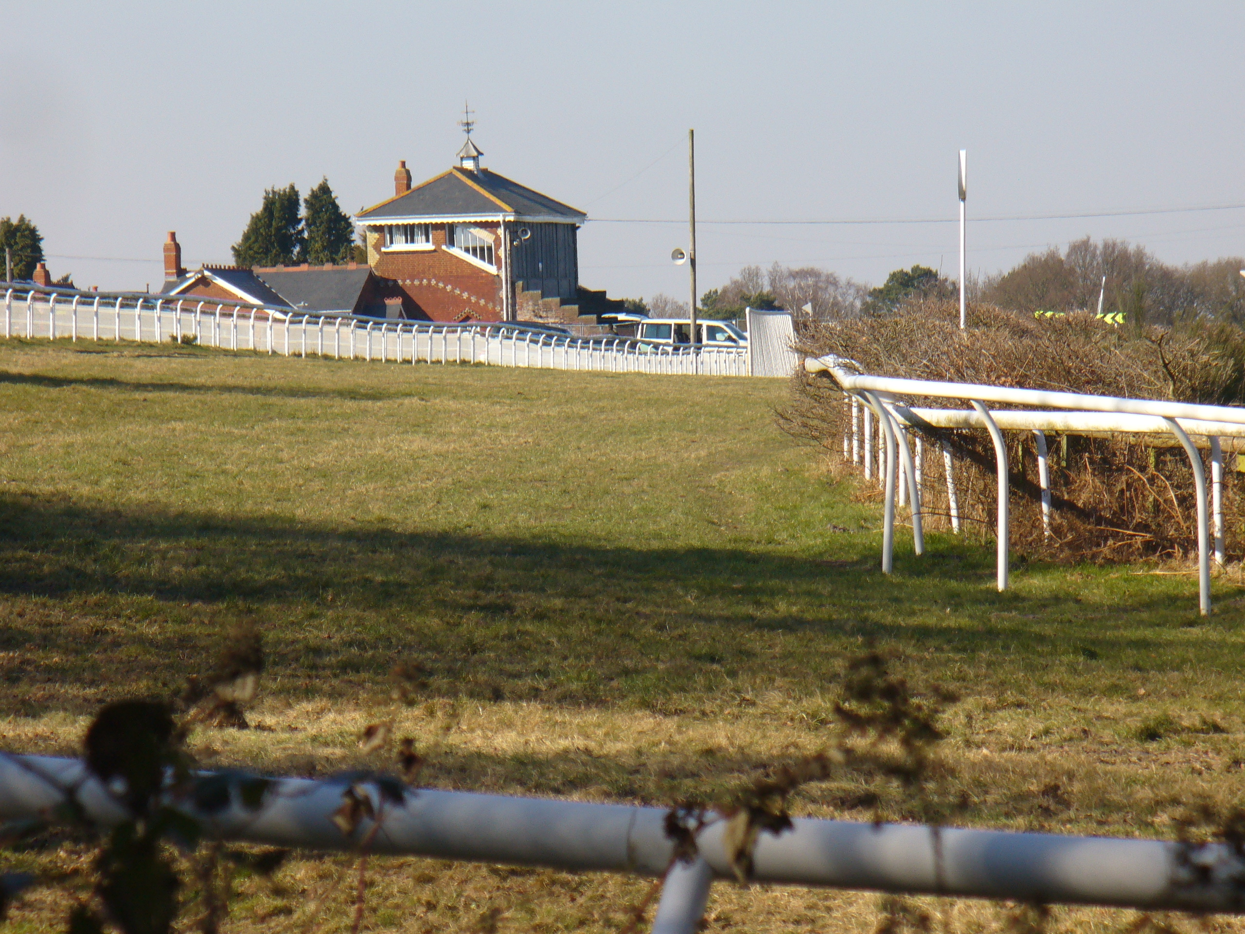 Tweseldown Racecourse A prime venue for horse trials and also to be an equestrian venue for the 2012 Olympic Games.